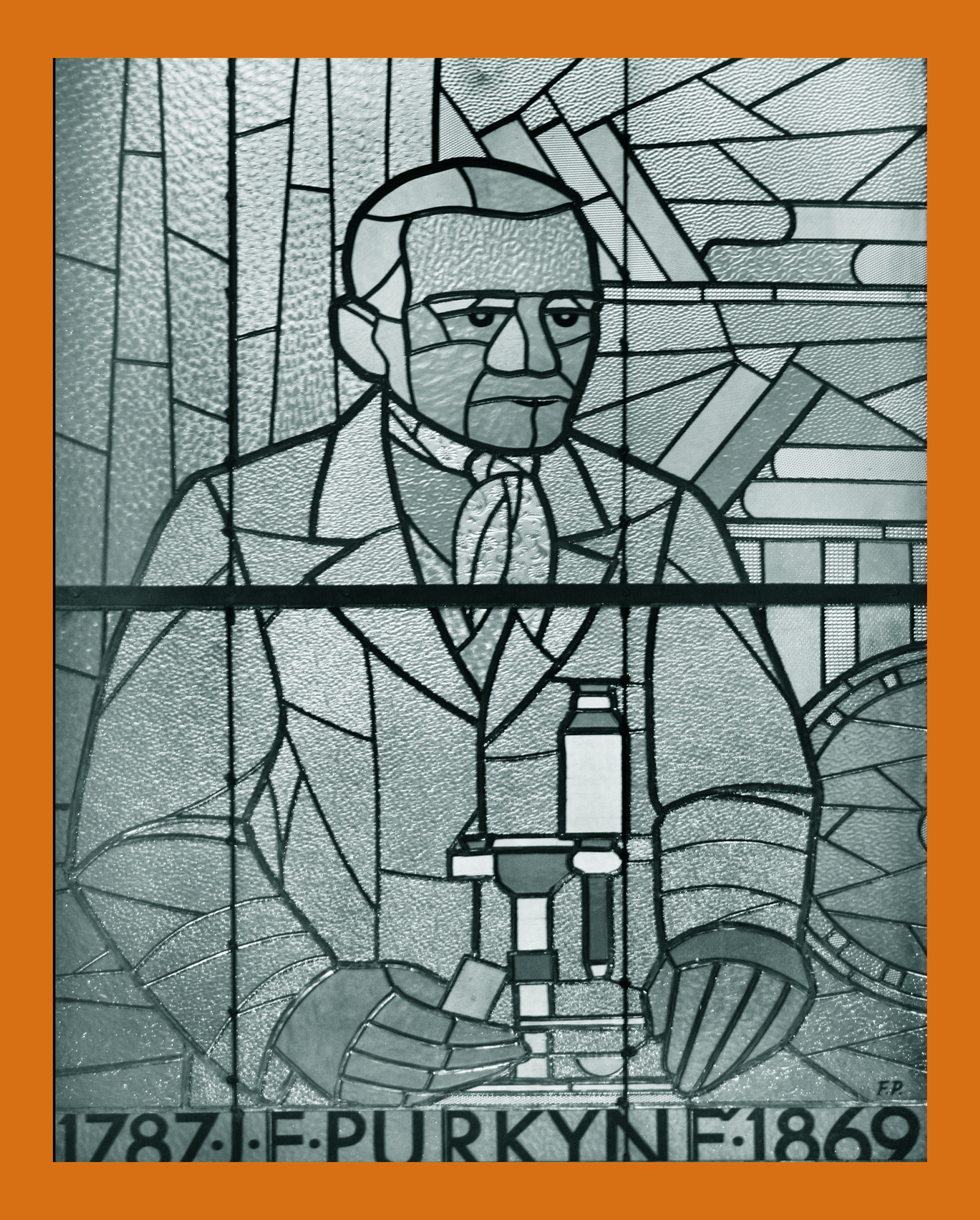 Vitráž v budove Lekárskej fakulty UK v Bratislave